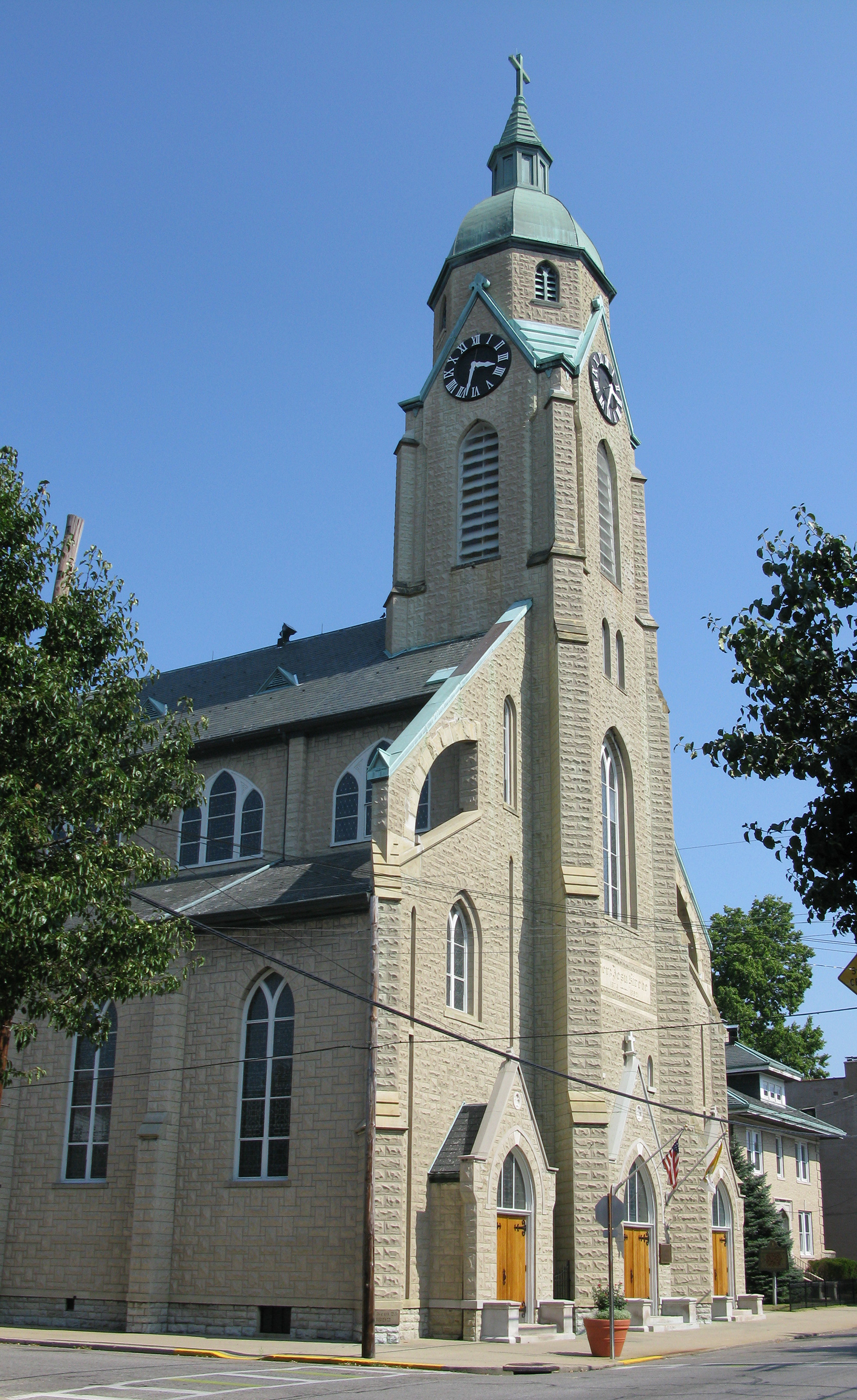 Sacred Heart Church is a Catholic parish church in Bellevue, Kentucky. It's corner stone reads "Sept 25, 1892." The sign in front of it reads, "BELLEVUE LANDMARK - This structure, which resembles the provincial Bavarian churches, was designed by Cincinnati architect Louis Picket. Alters with ogee arches, elaborate niches, finials, architraves, and bar tracery were handcarved in Germany. The triple clerestory windows have stained glass of European narrative type. Murals created by local artists Leon Lippert and Theodore Brasch."